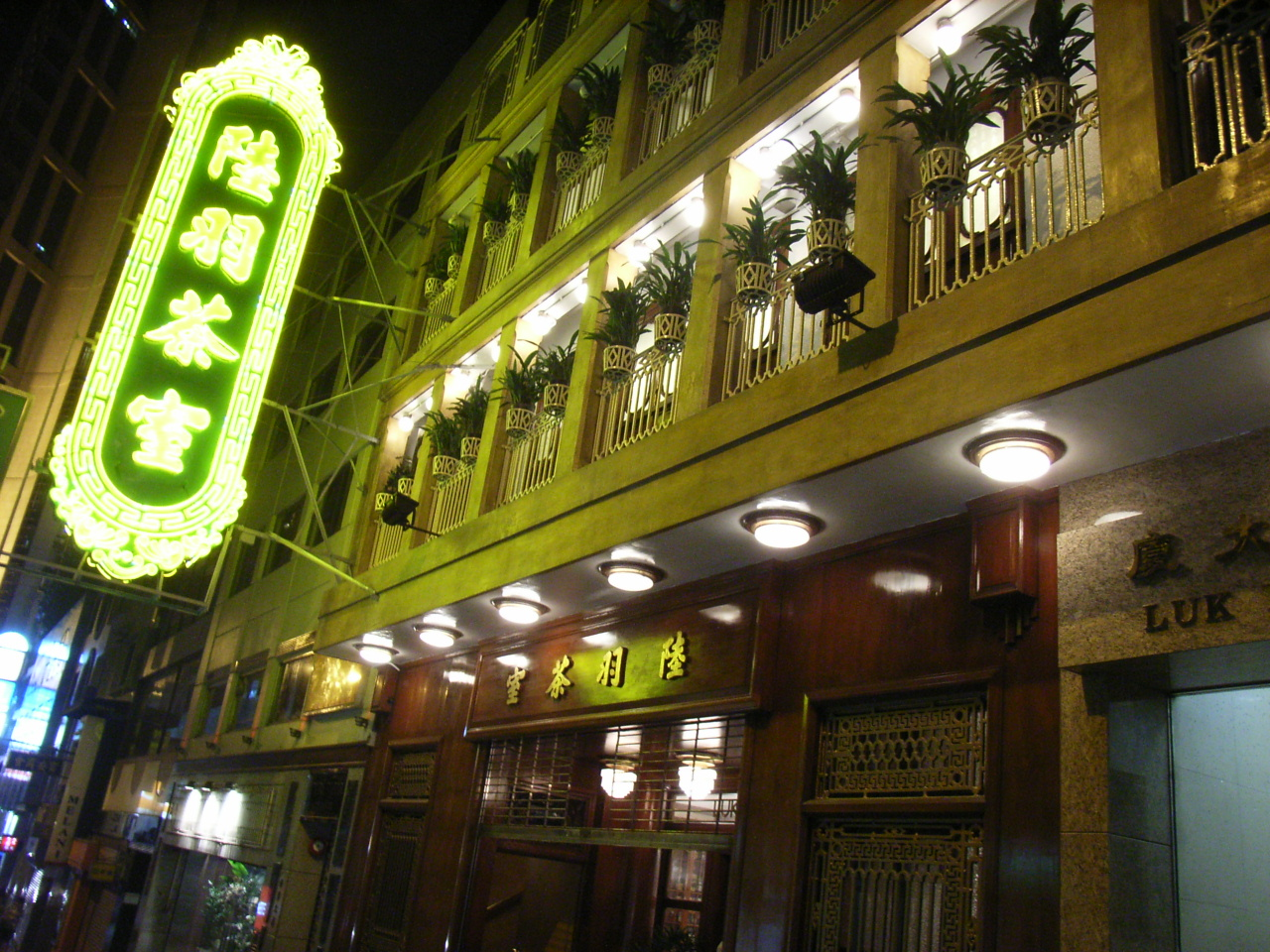 Luk Yu Building, Central, Hong Kong